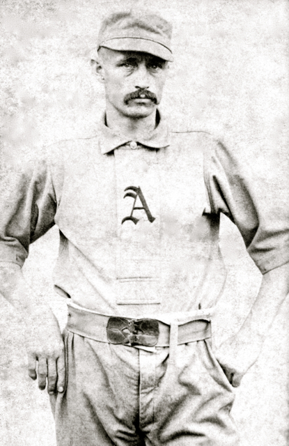 Harry Stovey, cropped from a Kalamazoo Bats baseball card.